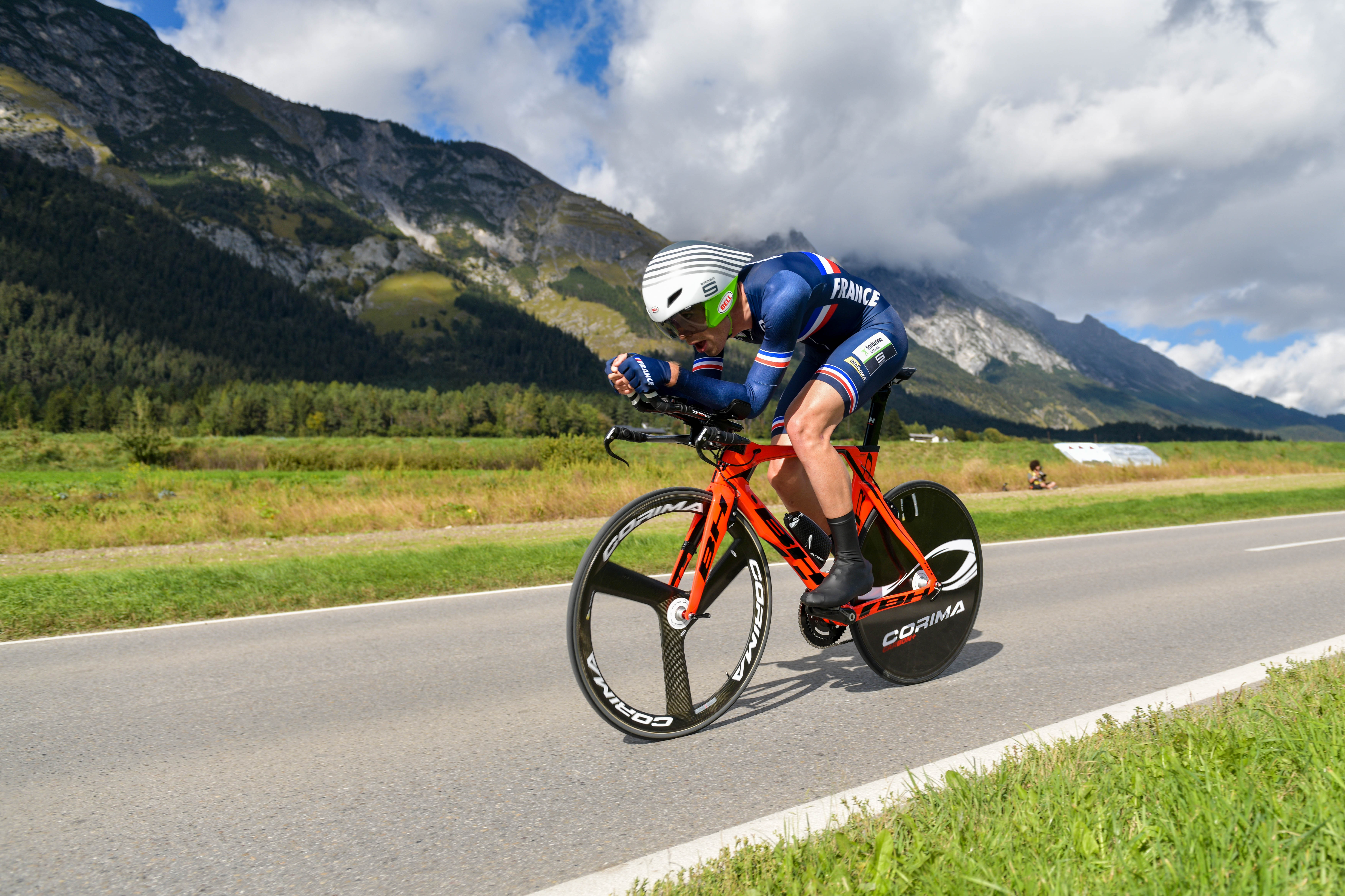 2018 UCI Road World Championships Innsbruck/Tirol Men under 23 Individual Time Trial. Picture shows: Thibault Guernalec of France